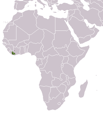 Leighton's Linsang (Poiana leightoni) range (green - extant, pink - probably extant)